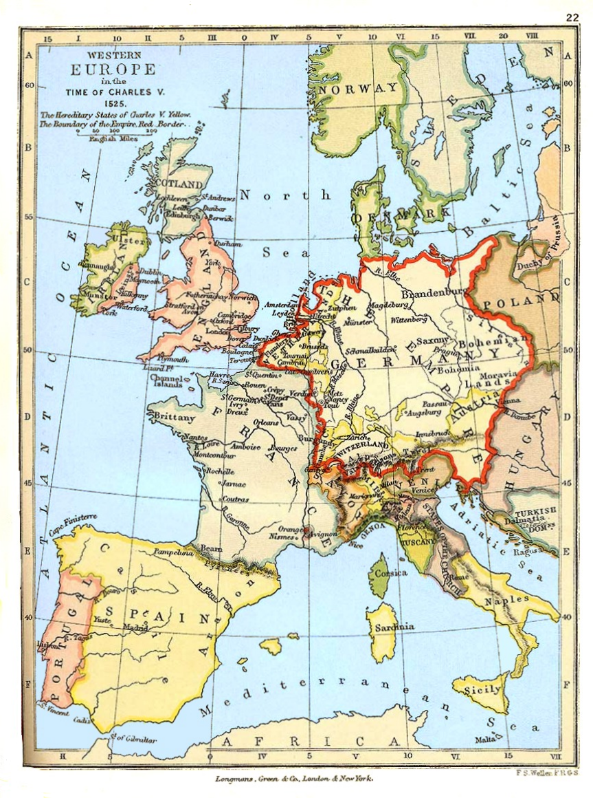 New version of Map of Western Europe in the Time of Charles V (1525)